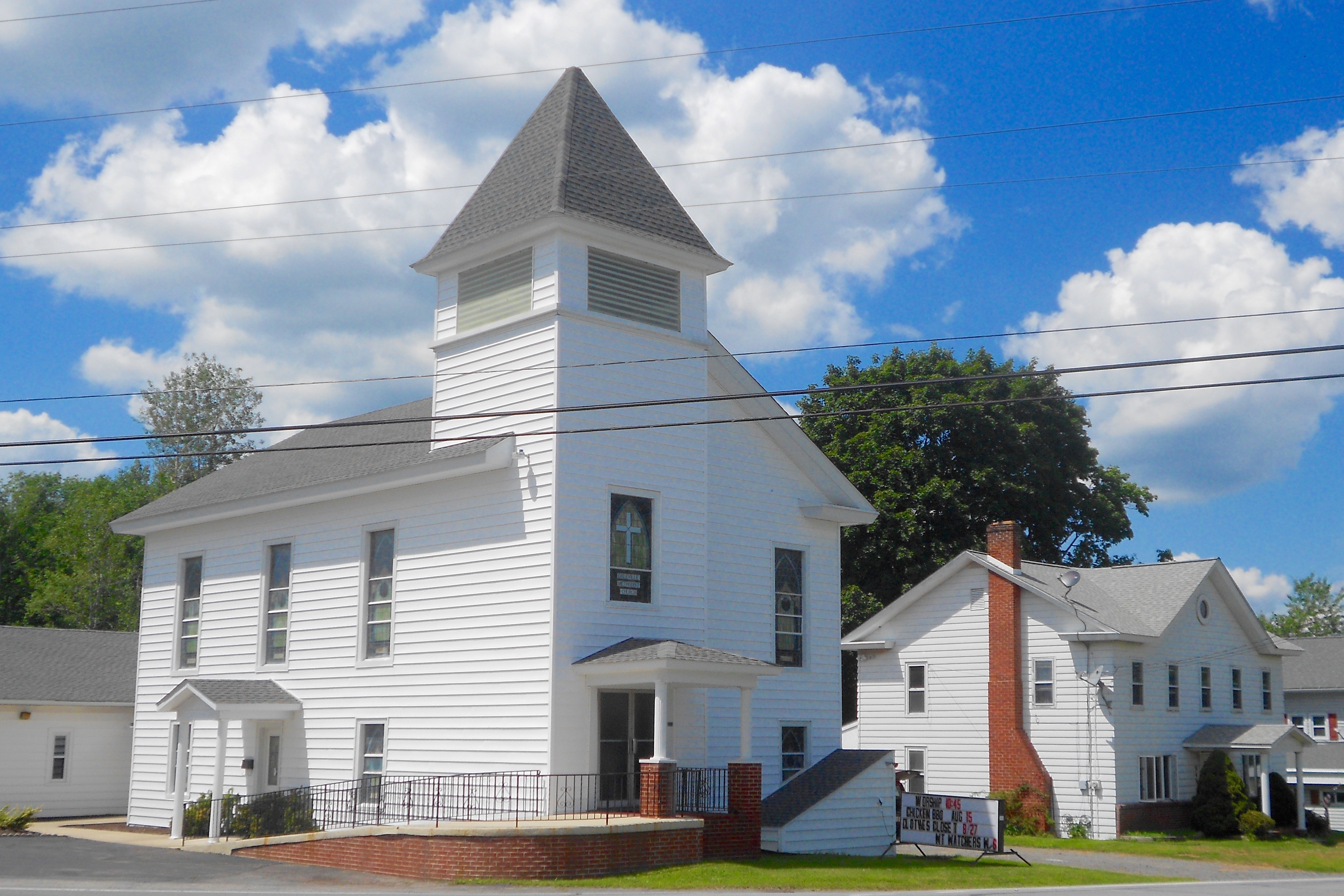 Dalesville United Methodist Church in Covington Township, Lackawanna County, Pennsylvania